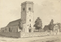 Drawing of St Mary le Wigford parish church, Lincoln, England, seen from the northwest